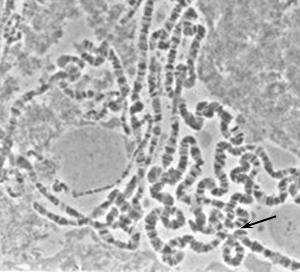 Phase-contrast miroscope image of Drosophila melanogaster polytene chromosomes. Chromocentre is marked with an arrow More detailed image Image:Drosophila polytene chromosomes 2.jpg